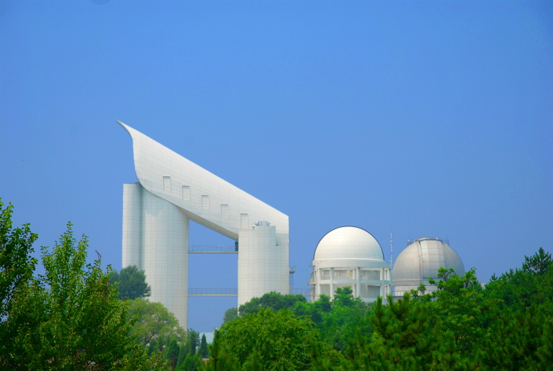 The LAMSOST telescope at Xinglong Station